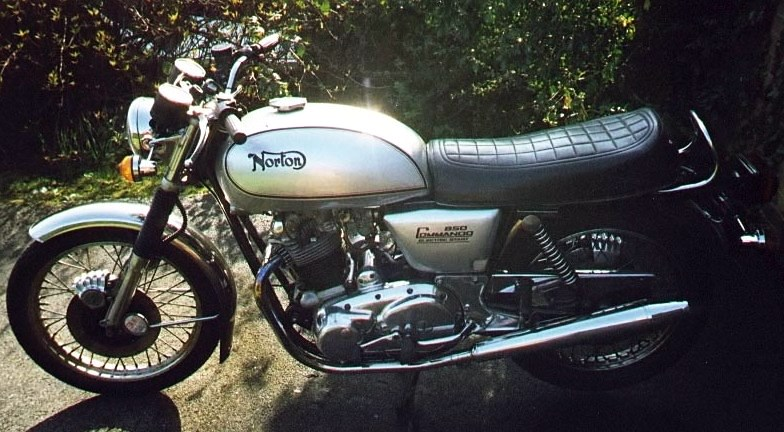 1978 Norton Commando 850cc Interstate Mk3